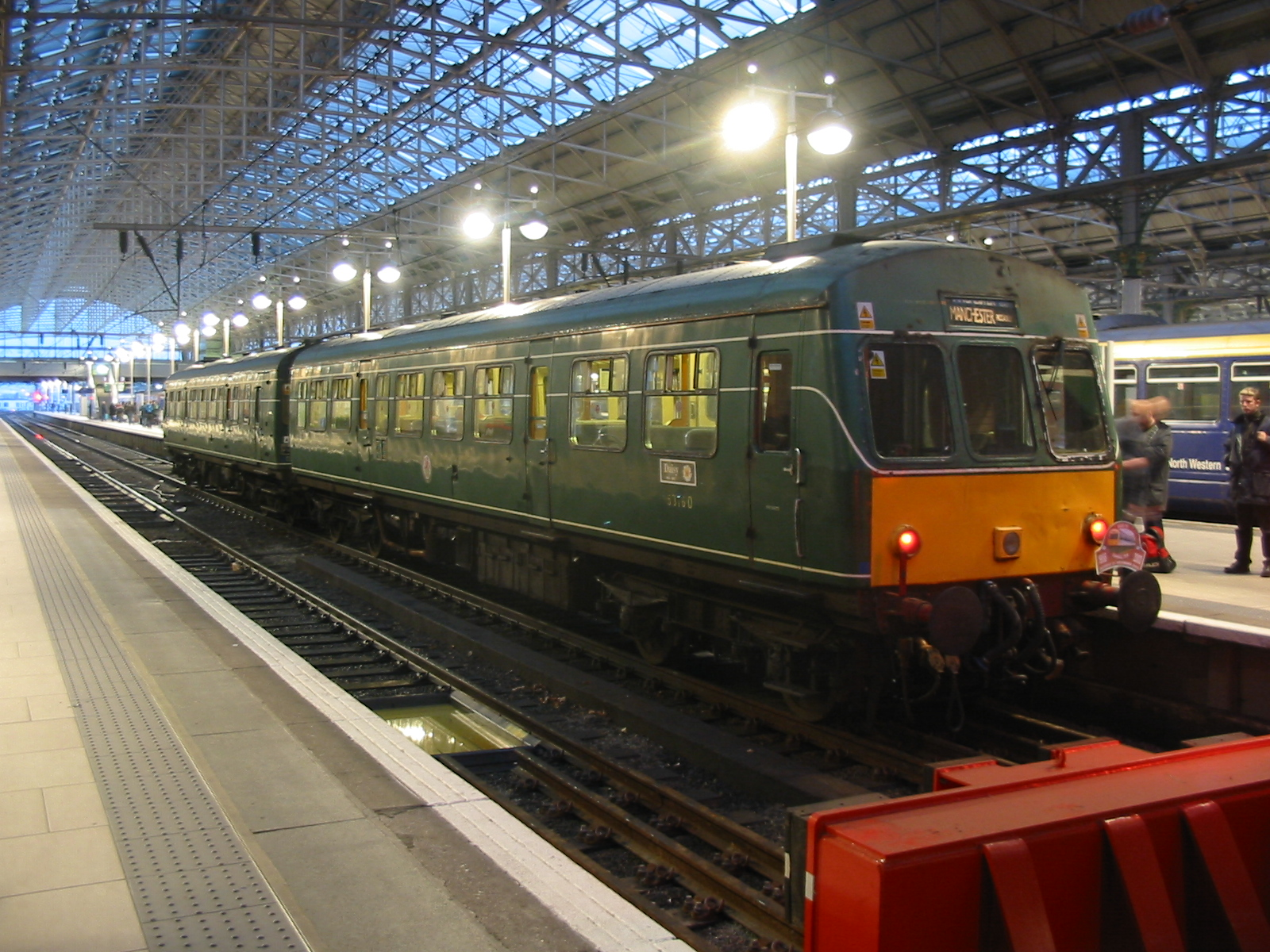 101 685 at Manchester Piccadilly